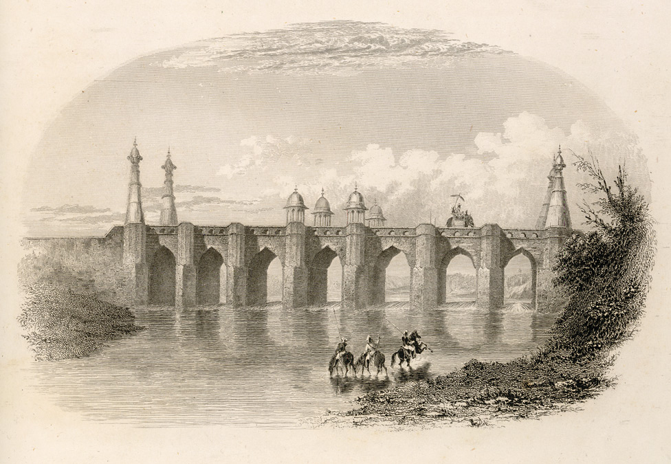 Engraving of Noorabad bridge, Plate 24 from James Tod's: Annals and antiquities of Rajasth'an or the Central and Western Rajpoot States of India, 1829. Uploaded by Fowler&fowler«Talk» 19:22, 12 August 2011 (UTC)